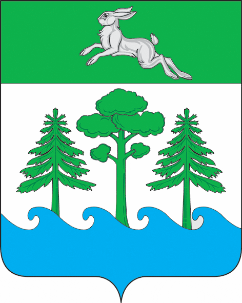 Coat of arms of Konakovo town, Емук region, Russia.